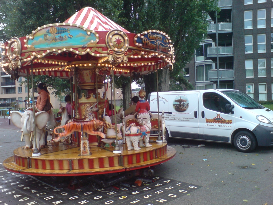 A carousel which you see a lot at fairs in The Netherlands.